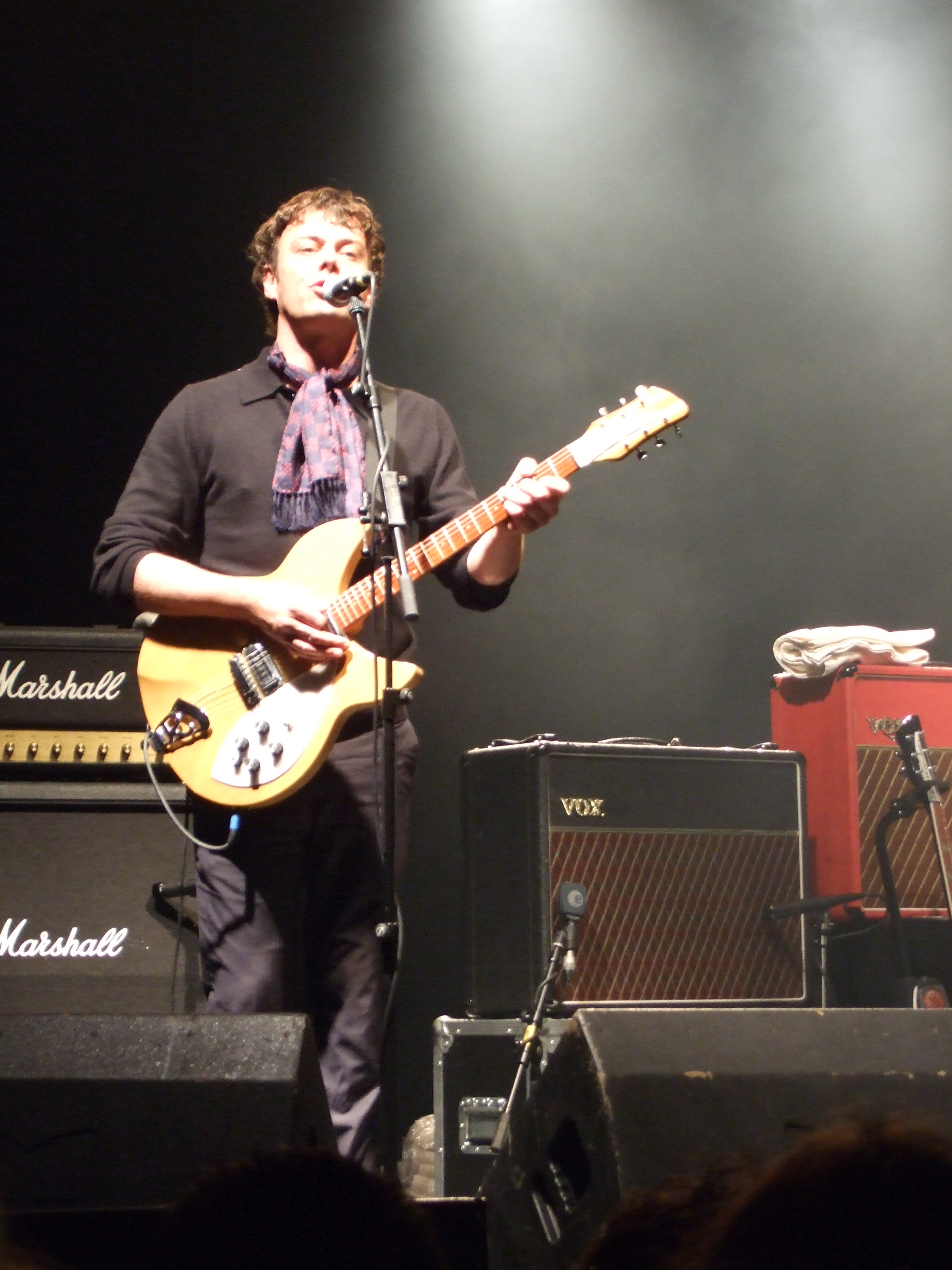 Mick Whitnall of Babyshambles at the bands concert in Berlin